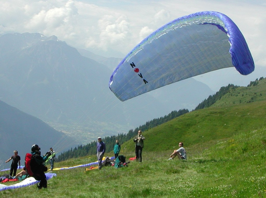 Starting paraglider